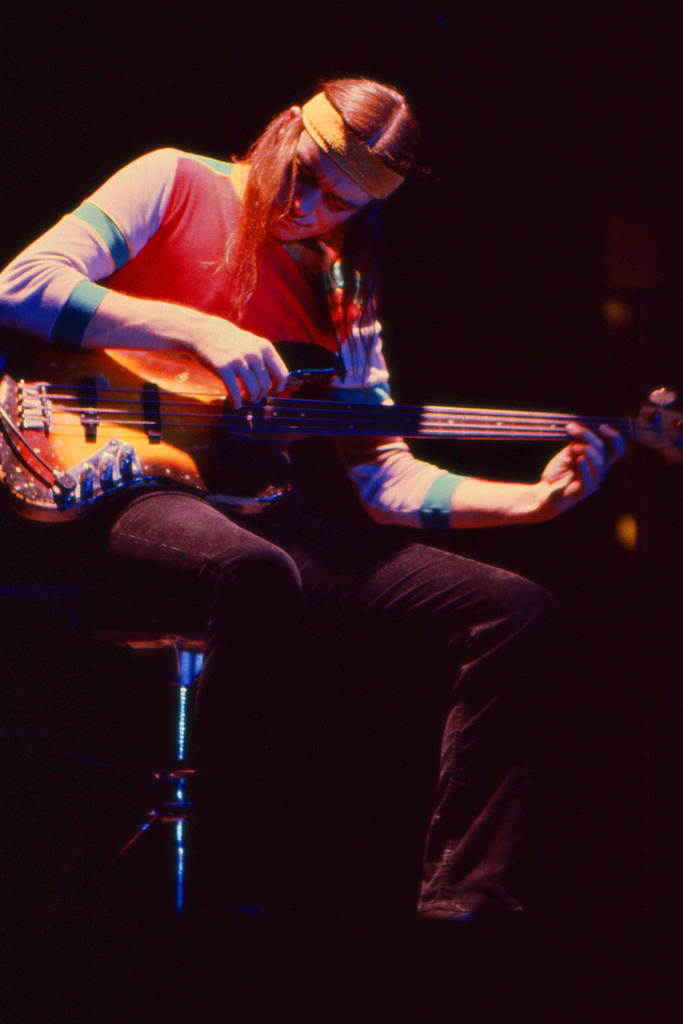 Jaco Pastorius with Weather Report seated with bass guitar, 1980